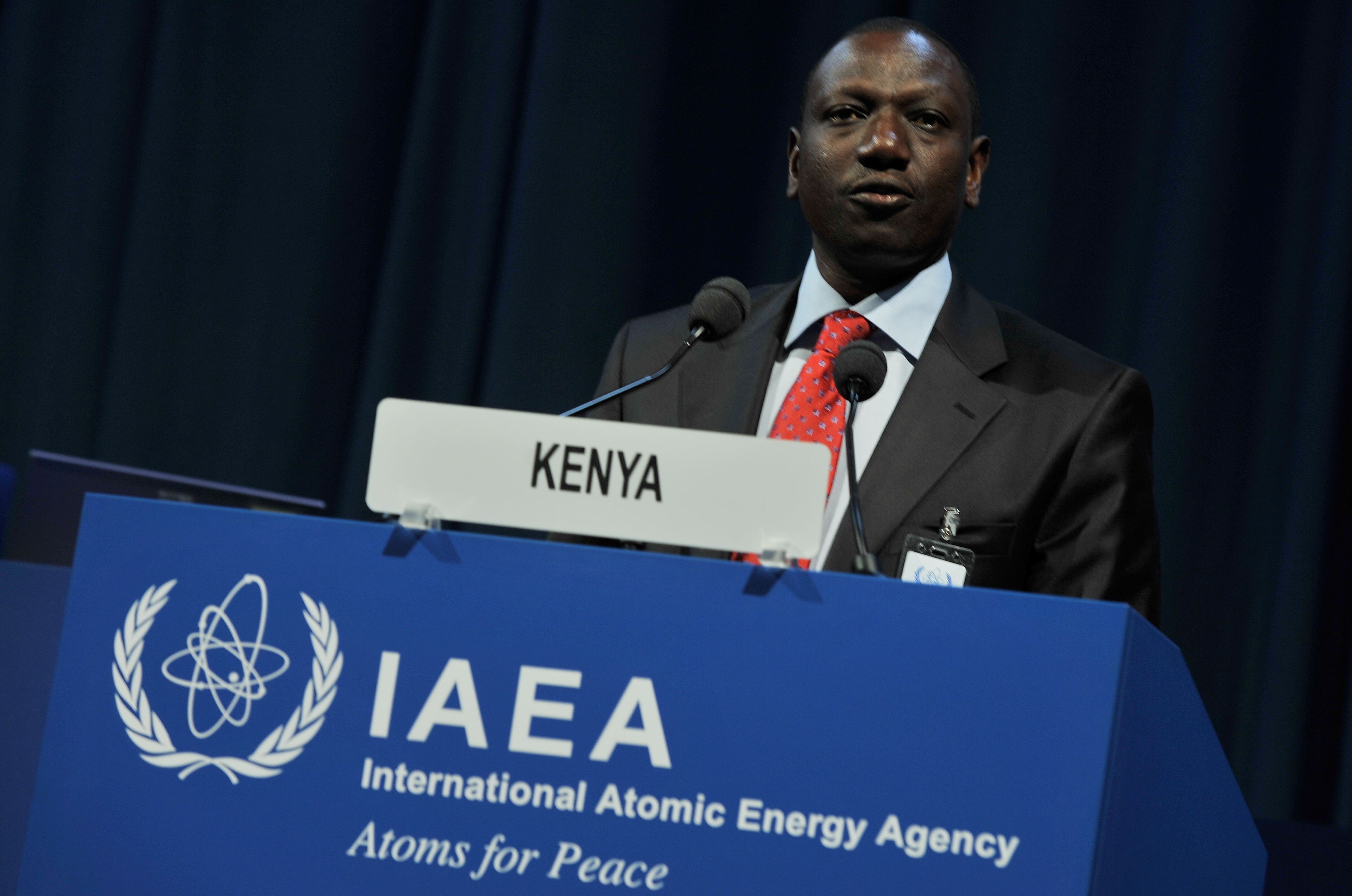 Mr. William Ruto, Kenya Minister of Higher Education, Science and Technology, delivers his statement at the 54th Regular Session of the IAEA General Conference. IAEA, Vienna, Austria, 20 September 2010 Copyright: IAEA Imagebank Photo Credit: Dean Calma/IAEA